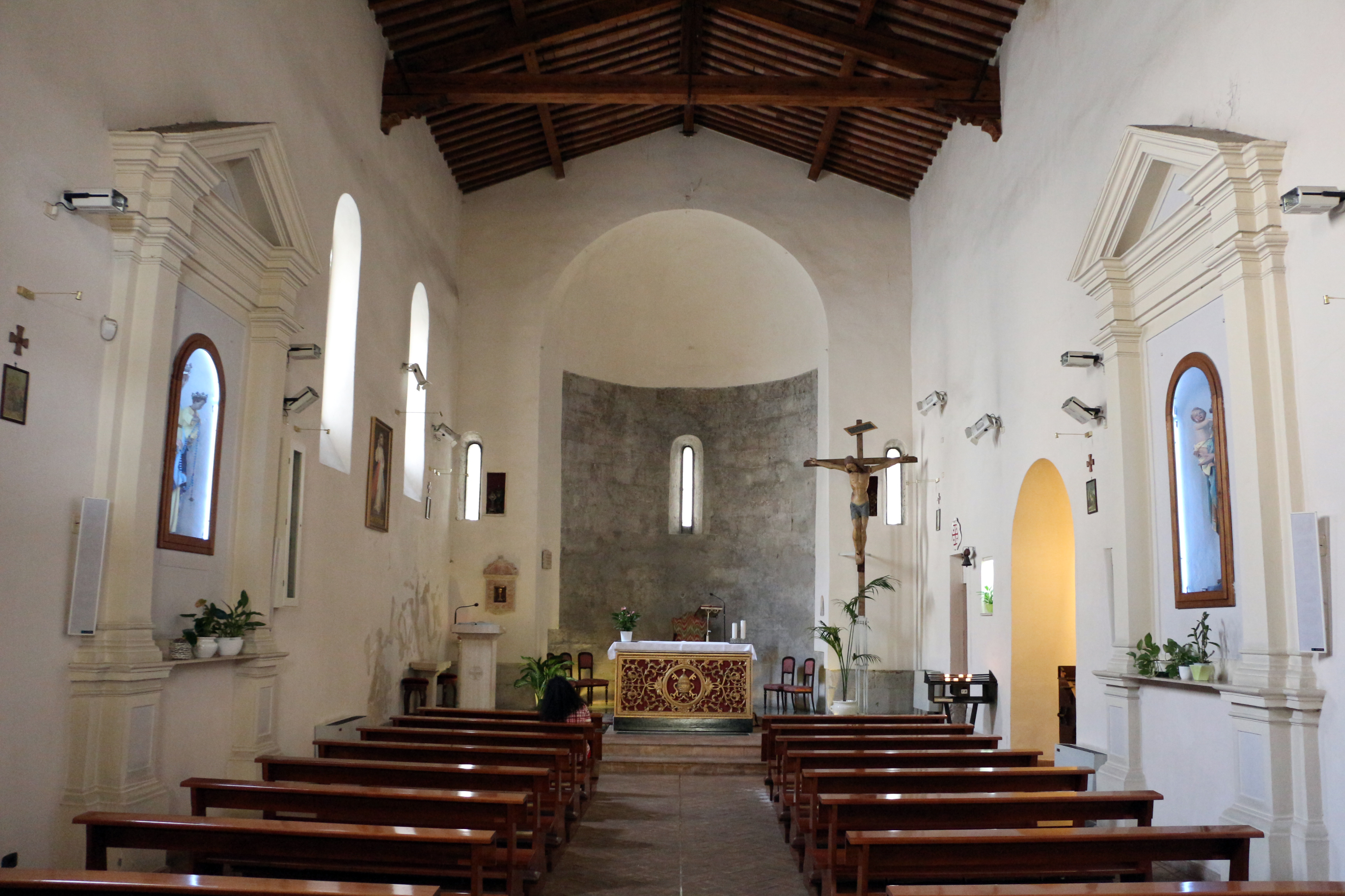 San Pietro (Grosseto)